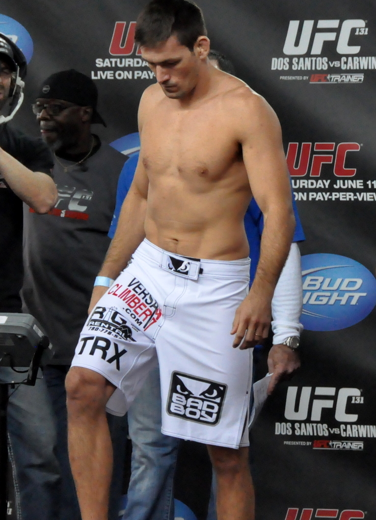 Demian Maia at the weigh in for the UFC 131.